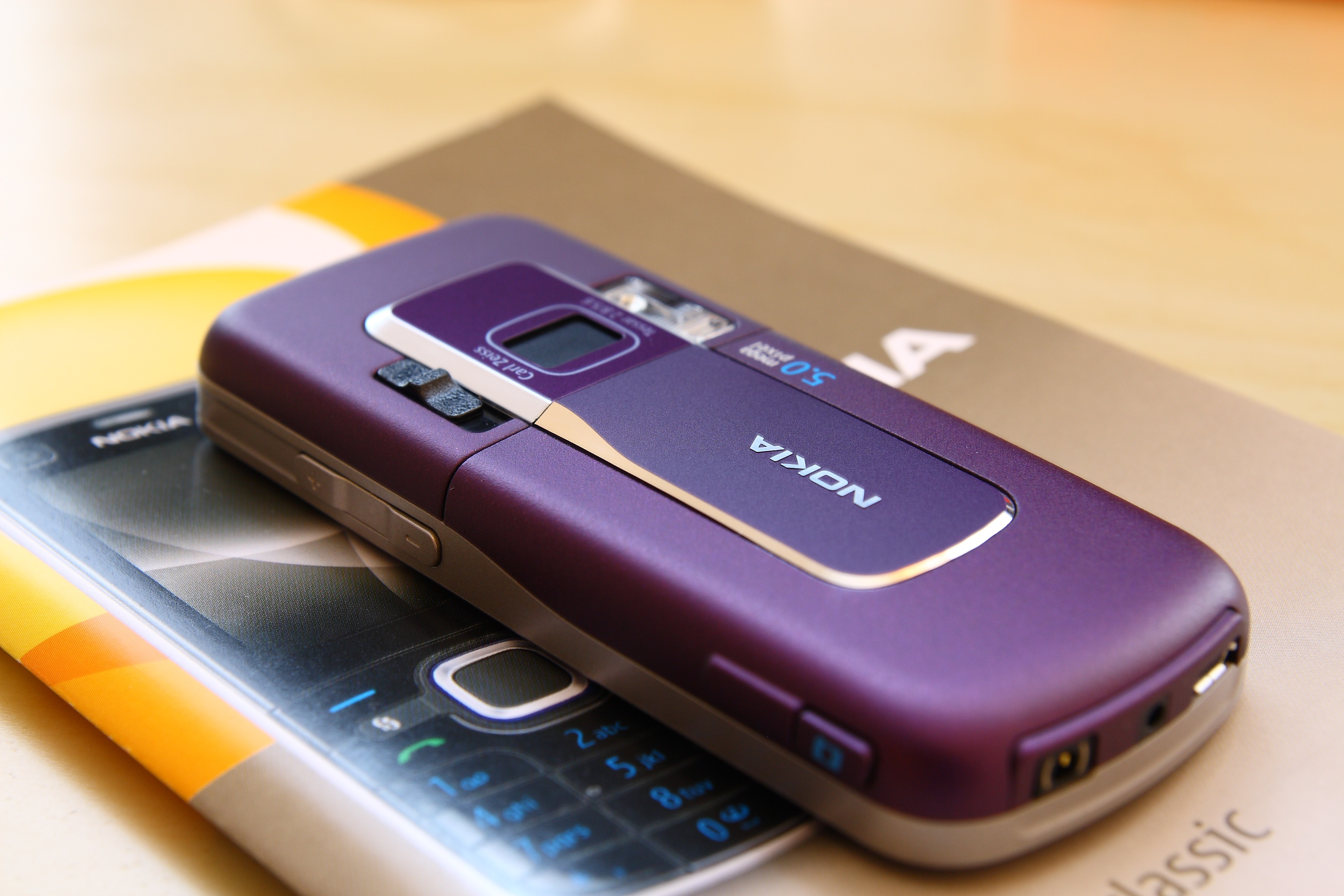 rear view of the Nokia 6220 classic mobile phone. Color: plum